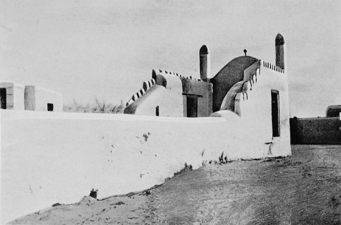 Tomb of Eve, photograph found in The story of a Pilgrimage to Hijaz by Nawab Sultan Jahan Begam, Calcutta 1913, p. 86-87